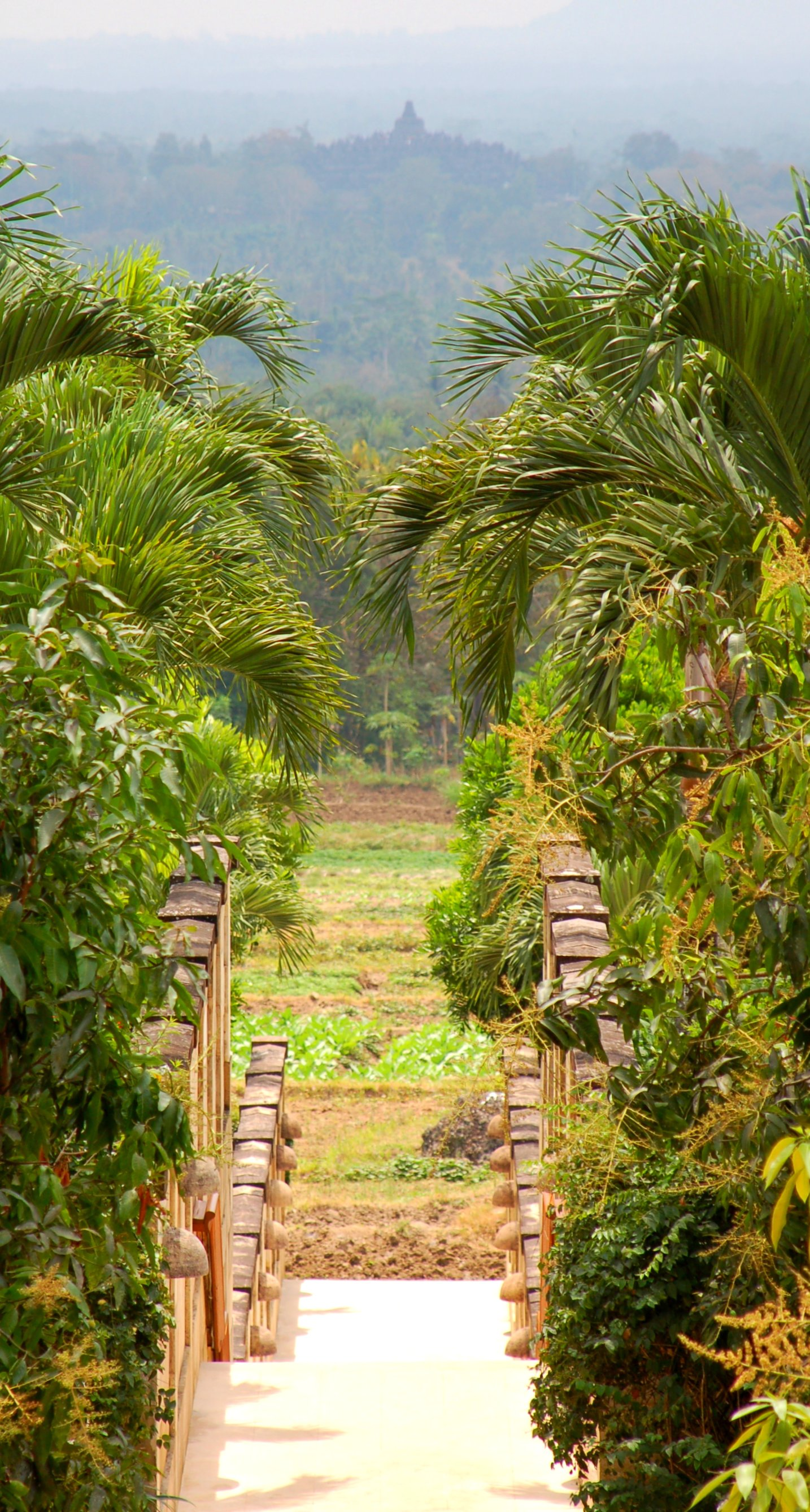 Amanjiwo Resort, Indonesia